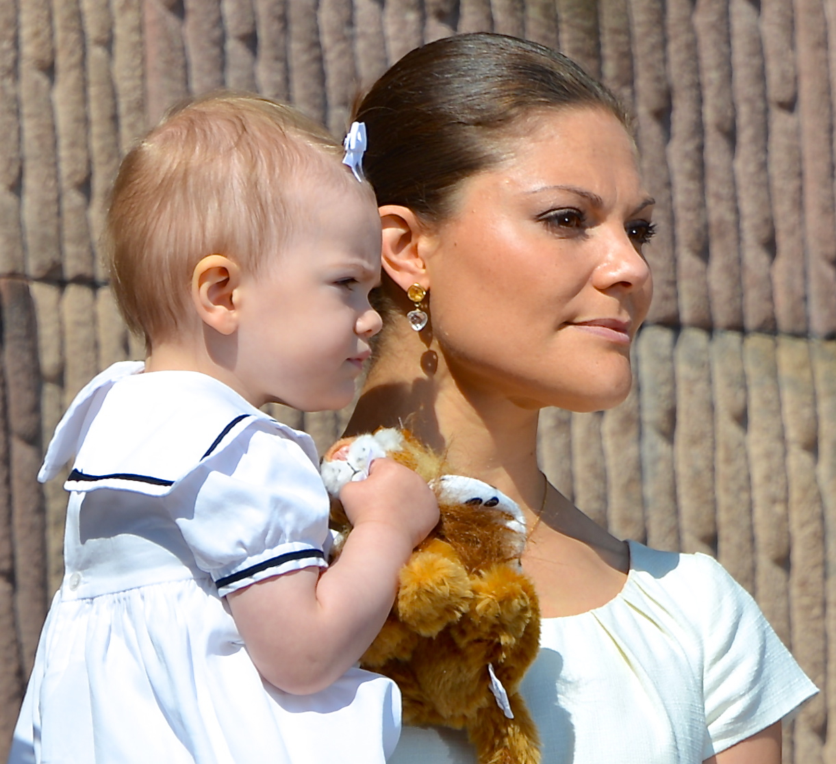 Crown Princess Victoria and Princess Estelle open the Palace´s gates from the Palace´s garden Logården, June 6, 2013.